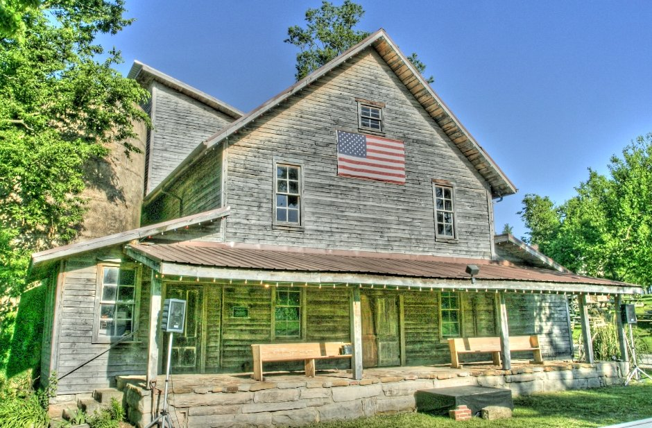 Wommack Mill on steroids Qtpfsgui 1.9.3 tonemapping parameters: Operator: Fattal Parameters: Alpha: 0.1 Beta: 0.8 Color Saturation: 1 Noise Reduction: 0.05 PreGamma: 1